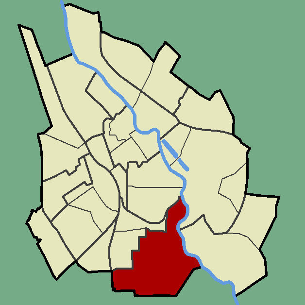 Locator map of Ropka tööstusrajoon, Tartu, Estonia.